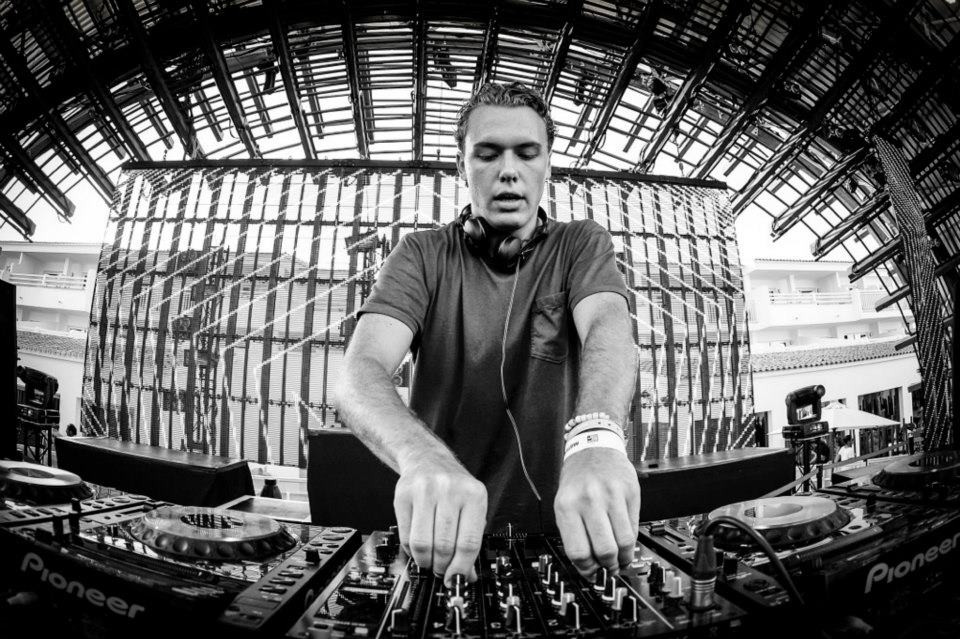 Photograph of Otto playing live at Ushuaia, Ibiza